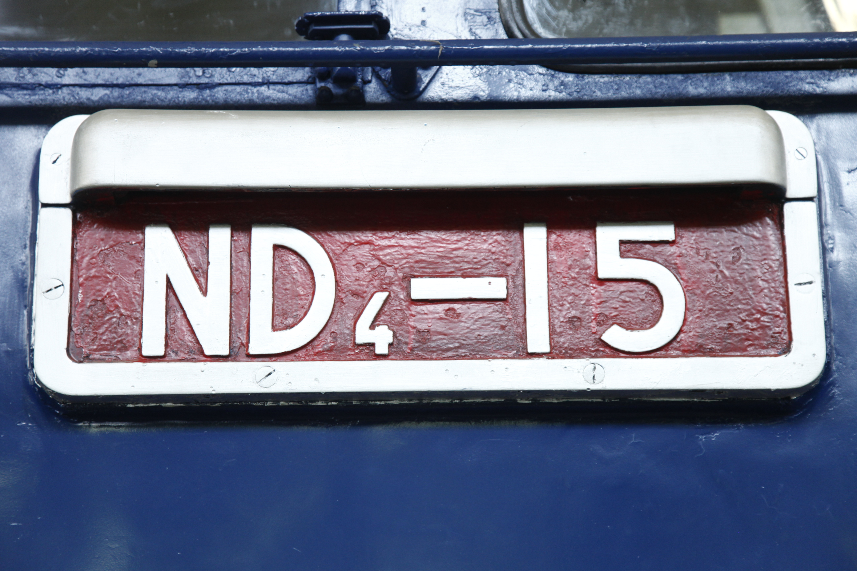 ND4 sign details